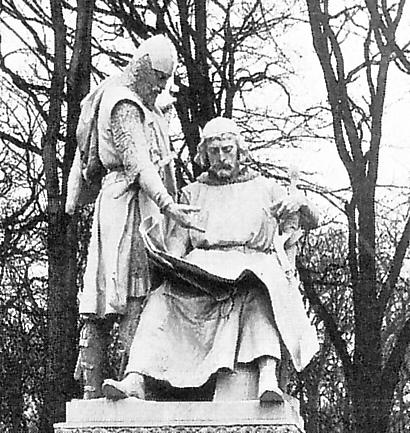 The former Siegesallee in Berlin with the double statue (detail) commemorating the corulers of Brandenburg, Margrave John I (1213–1266) and Margrave Otto III (ca. 1215–1267), sons of Albert II and grandchildren of Otto II. Sculptor: Max Baumbach. The sculpture was unveiled on 22 March 1900. Spread across the knees of John I is the document granting town charters to Berlin and Cölln. The younger Otto III stands beside him, pointing to the charter with one arm while the other rests on a hunting spike. The youthful city founders are portrayed here as mature men, because in the view of contemporaries the significance of founding the later metropolis would not have been adequately manifested as an act of two youngsters.